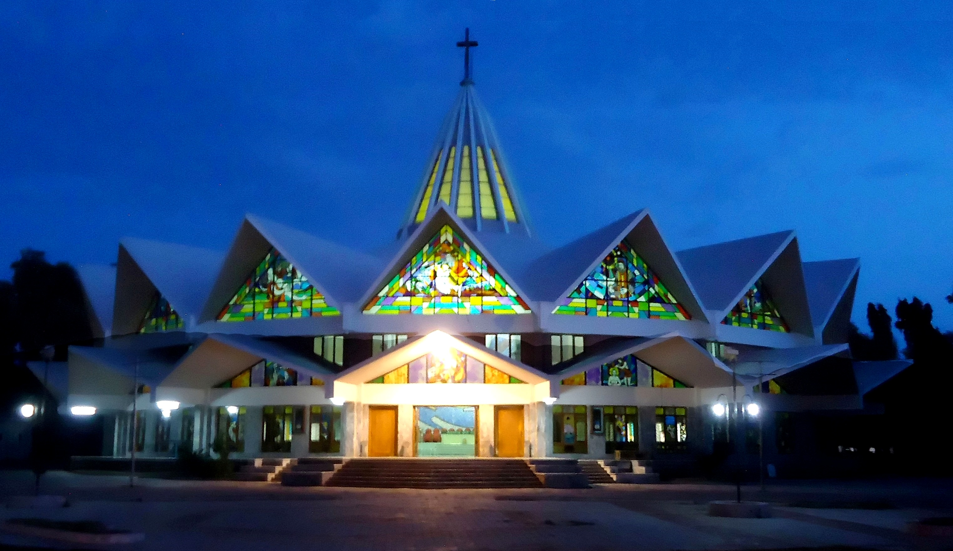 The Assumption Cathedral of the Roman Catholic Diocese of Vellore